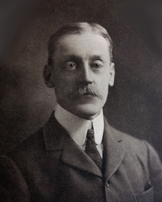 Portrait photo of Robert Abbott Hadfield (1858-1940), trimmed version of File:Robert Abbott Hadfield photograph 1906.jpg